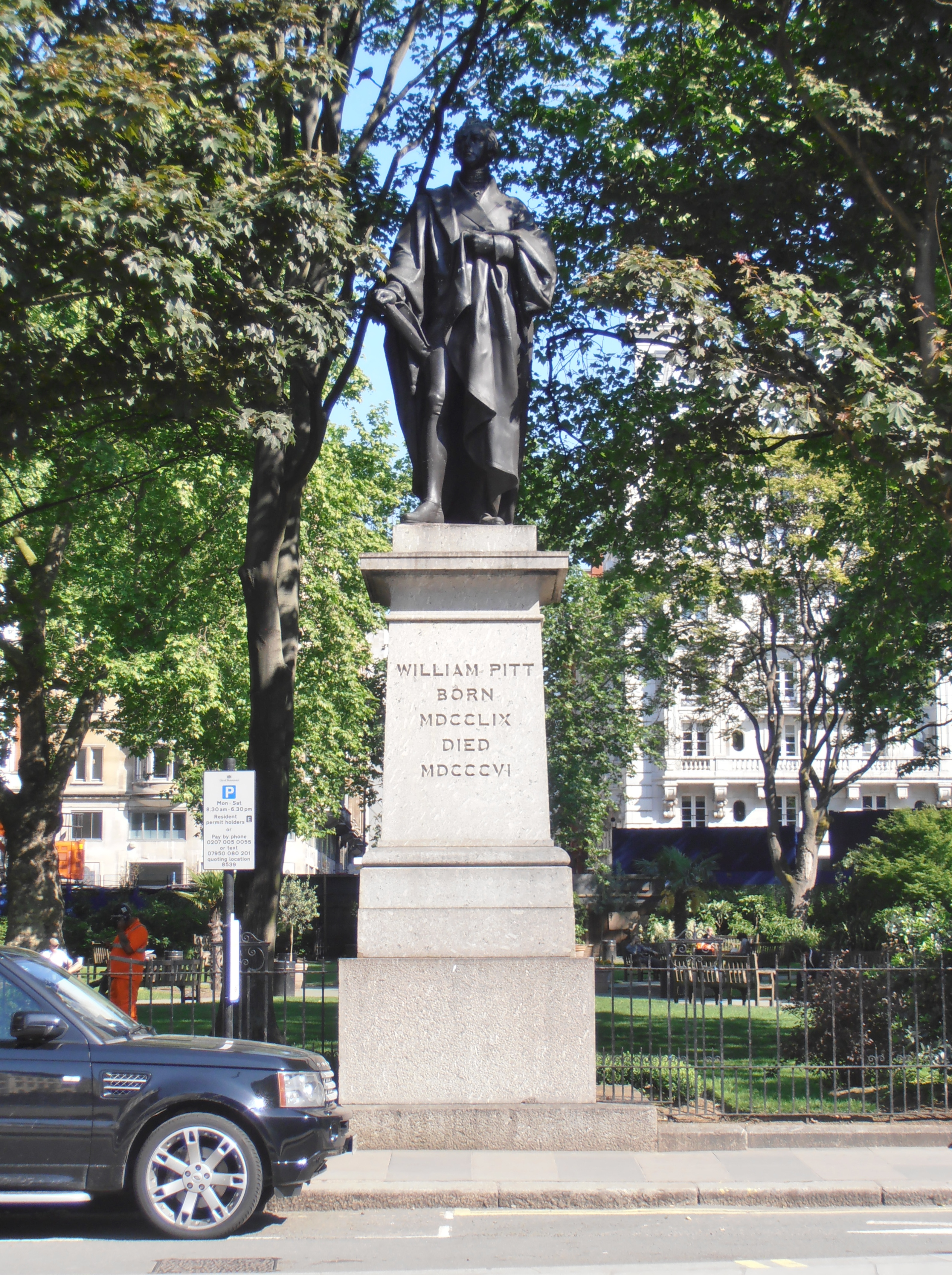 Statue of William Pitt the Younger (1831) by Sir Francis Chantrey, Hanover Square, Mayfair, London W1. The making of this file was supported by Wikimedia UK.